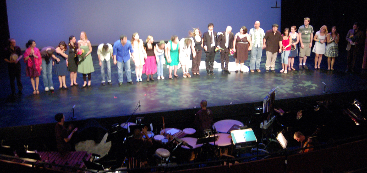 Tamandua (The Anteater) - A Brazilian Opera by Joao MacDowell - Montclair State University NJ 2009 - Alexander Kasser Theater, directed by Jeffrey Gall. The singers and the orchestra receive enthusiastic ovation from the audience.